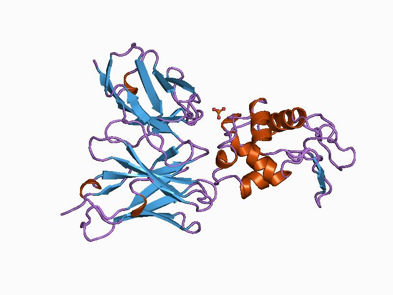 Cartoon representation of the molecular structure of protein registered with 1a2y code.